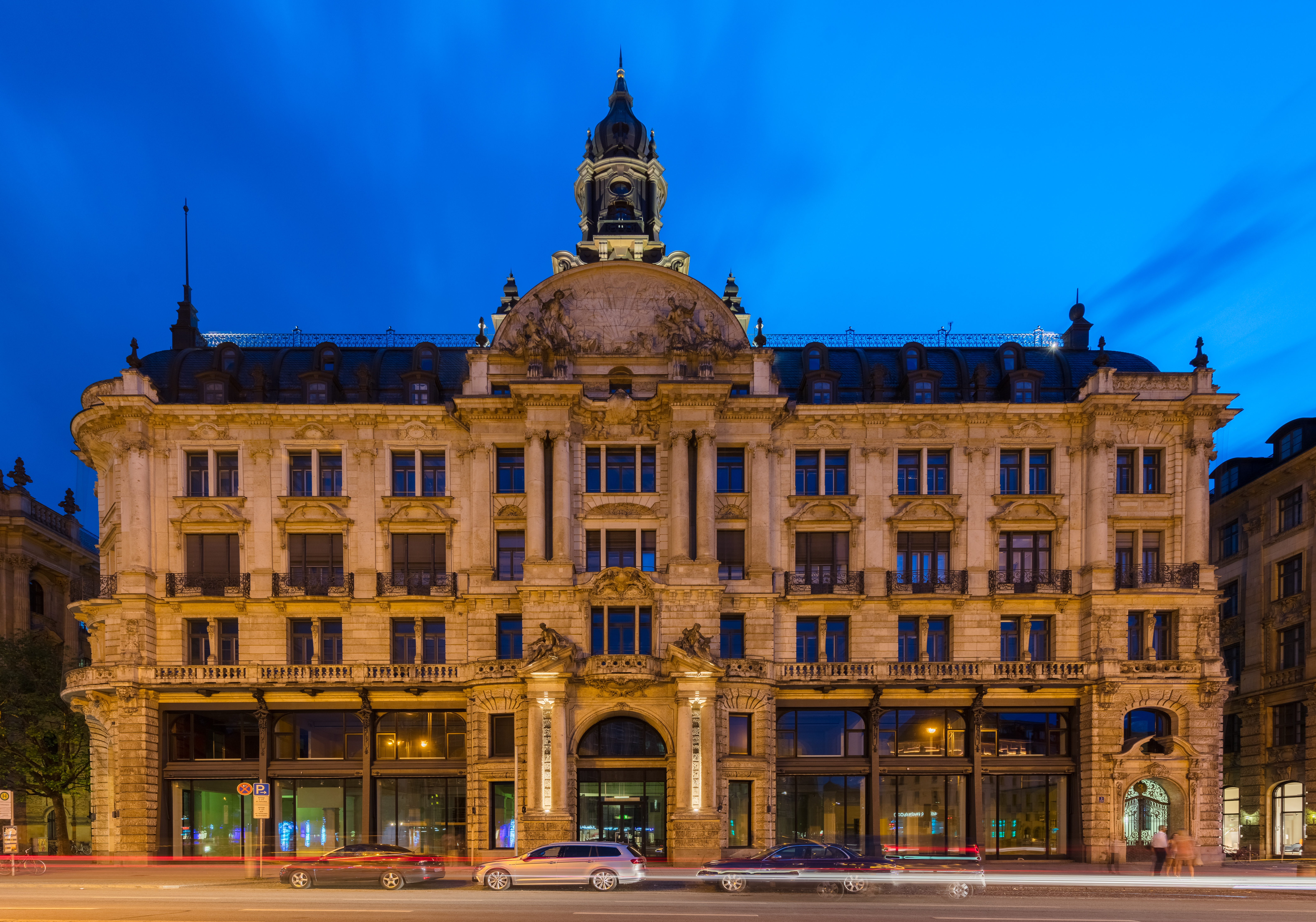 Bernheimer House, Lenbach Square, Munich, GermanyThis is a photograph of an architectural monument.